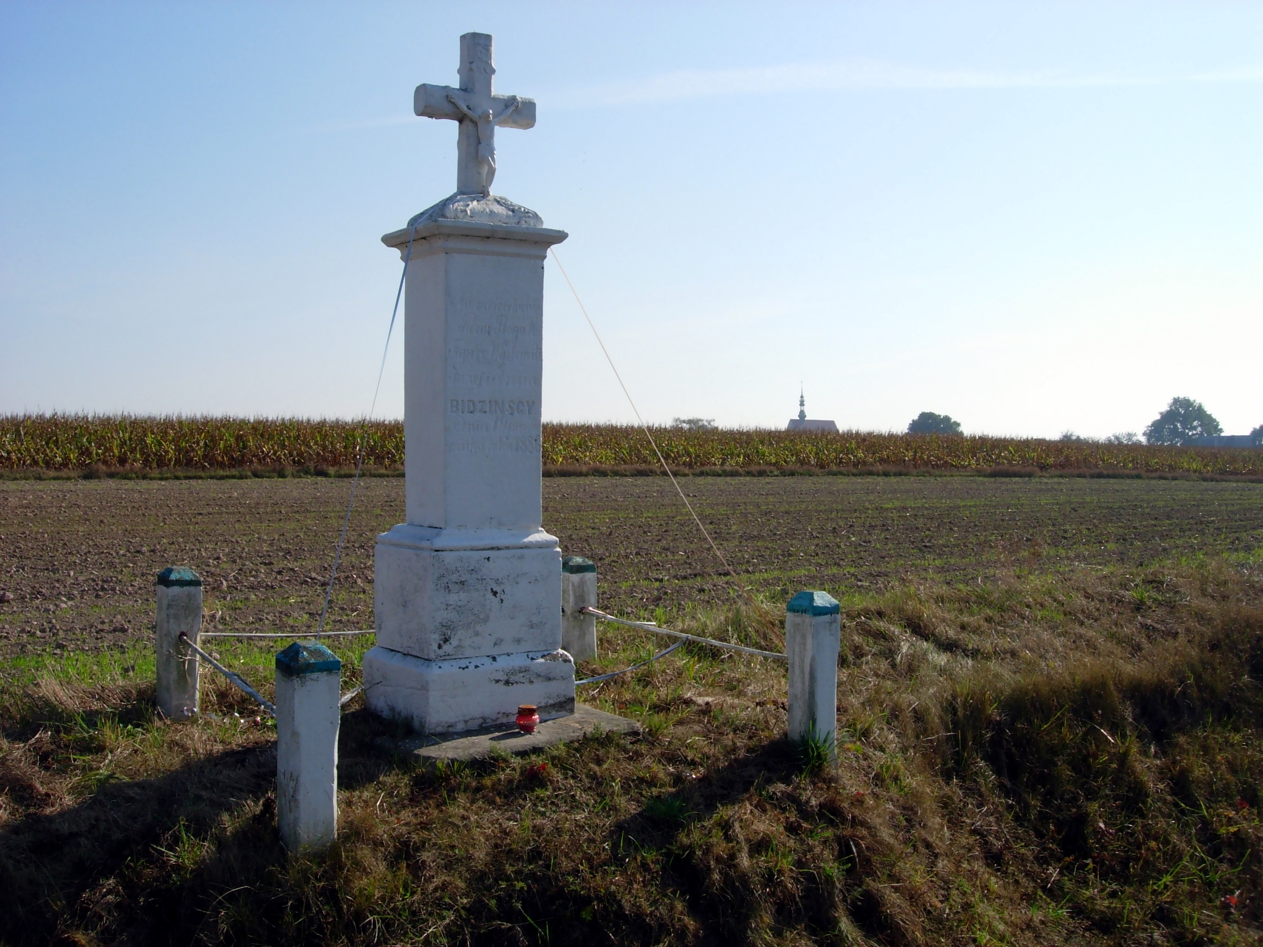 Wayside cross in Kałków, Poland